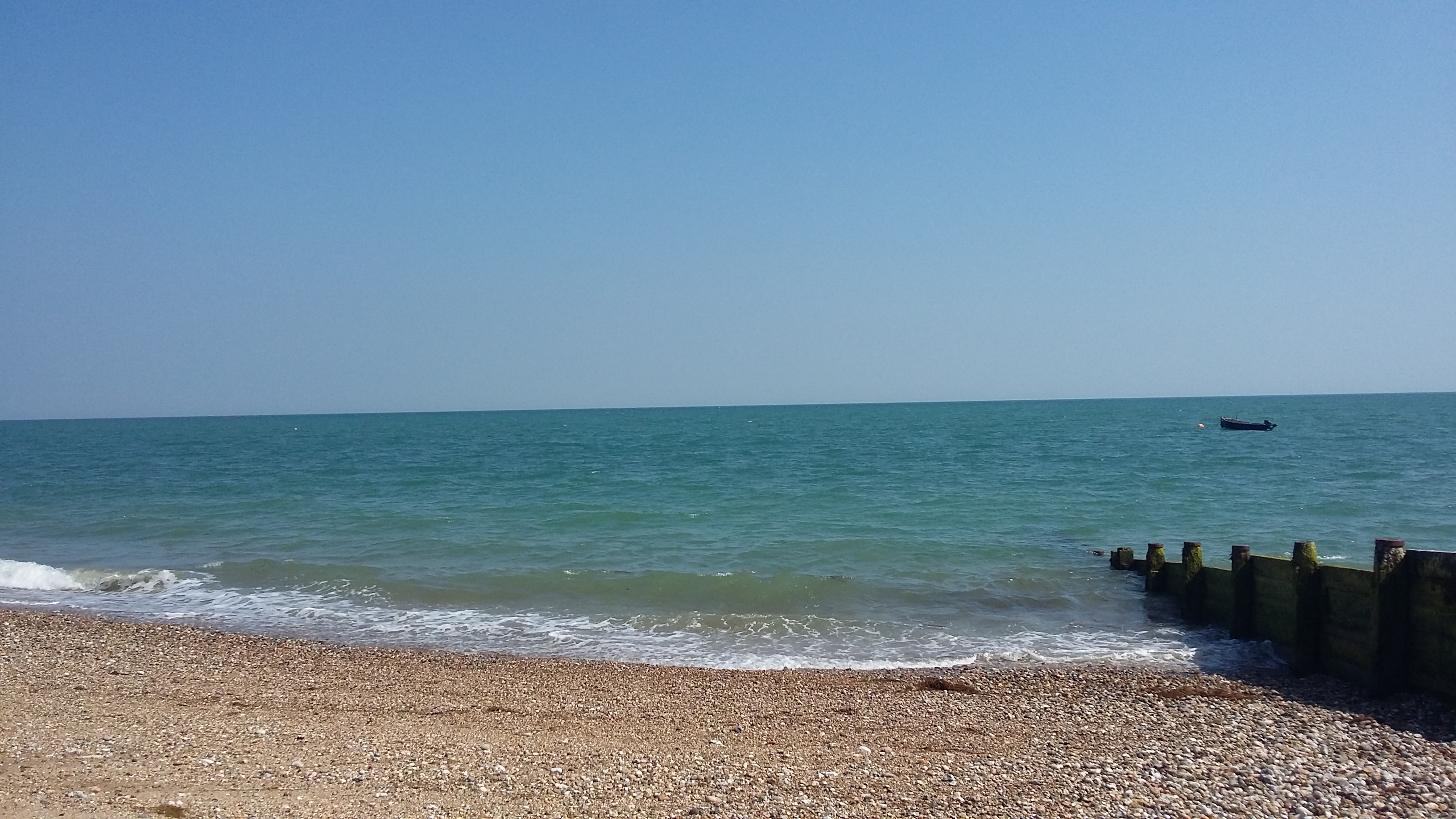 The coast off Selsey Beach, West Sussex